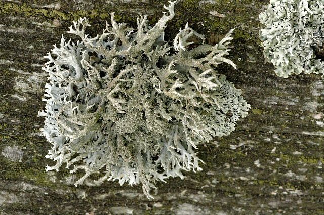 Picture taken in Commanster, Belgian High Ardennes . Species: Pseudevernia furfuracea